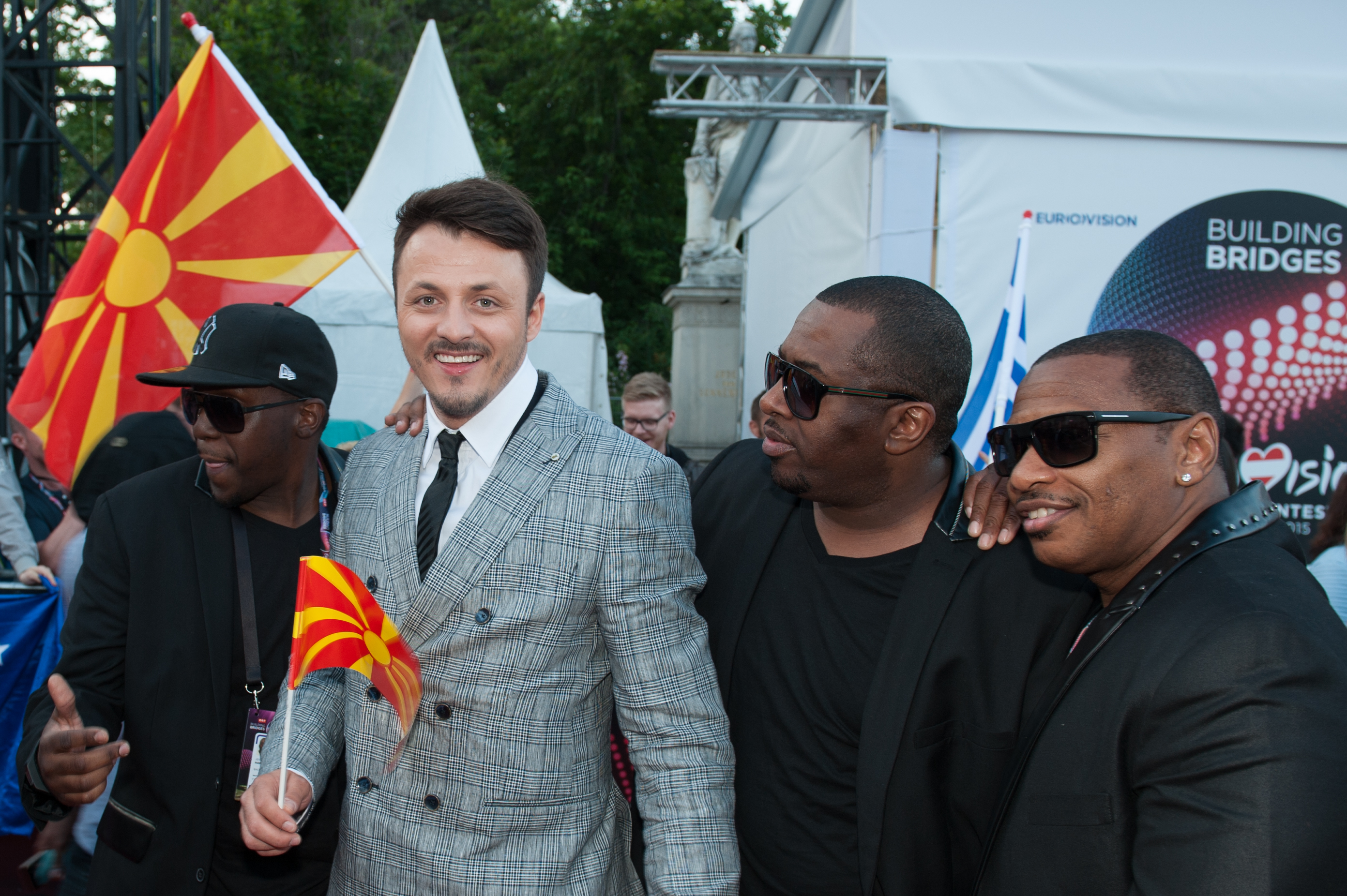 Eurovision Song Contest Vienna 2015: Daniel Kajmakoski